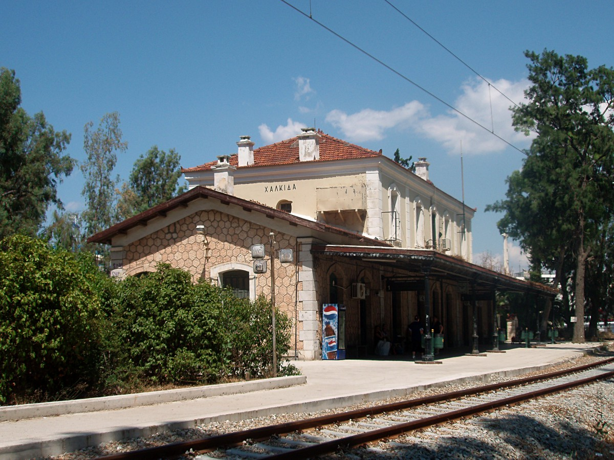 GREECE: Chalkis railway station in June 2011.